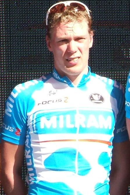 Named cyclist at the en:2009 Tour Down Under team presentation